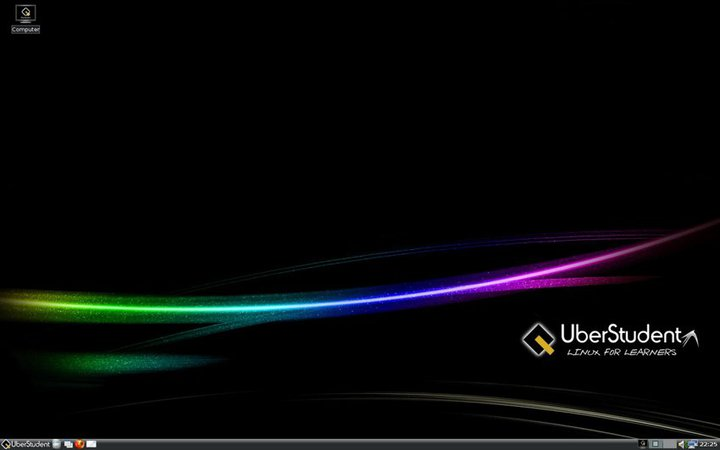 UberStudent 1.0 Cicero Lightweight (CD) Edition default desktop. Logo contained therein is trademarked.